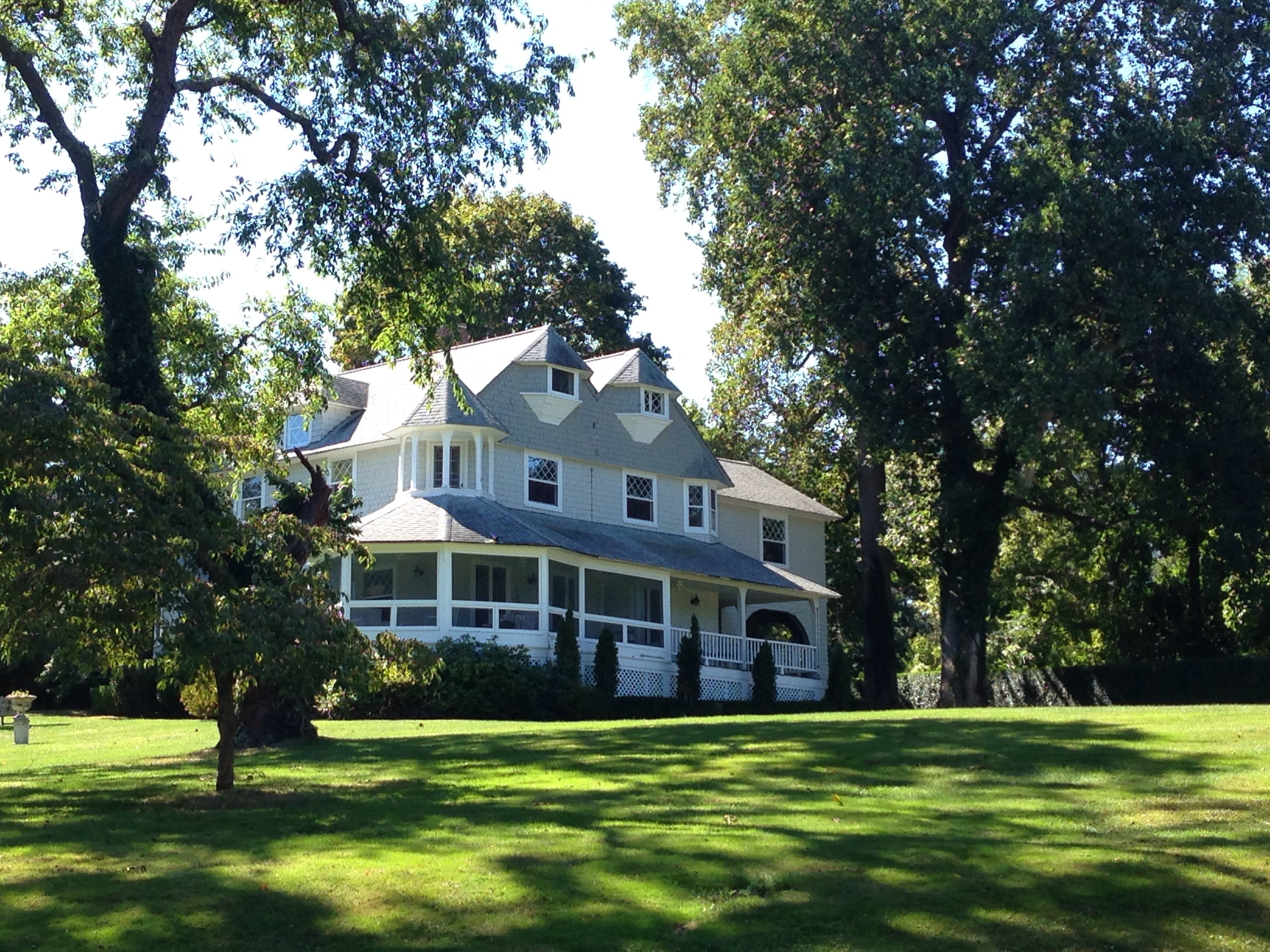 Bay Crest Historic District, Beech Avenue, Valley Road, Woodside